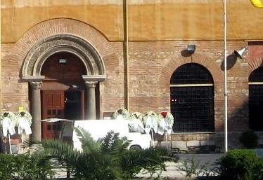 The Agia Sofia, a church in Thessaloniki, Greece.